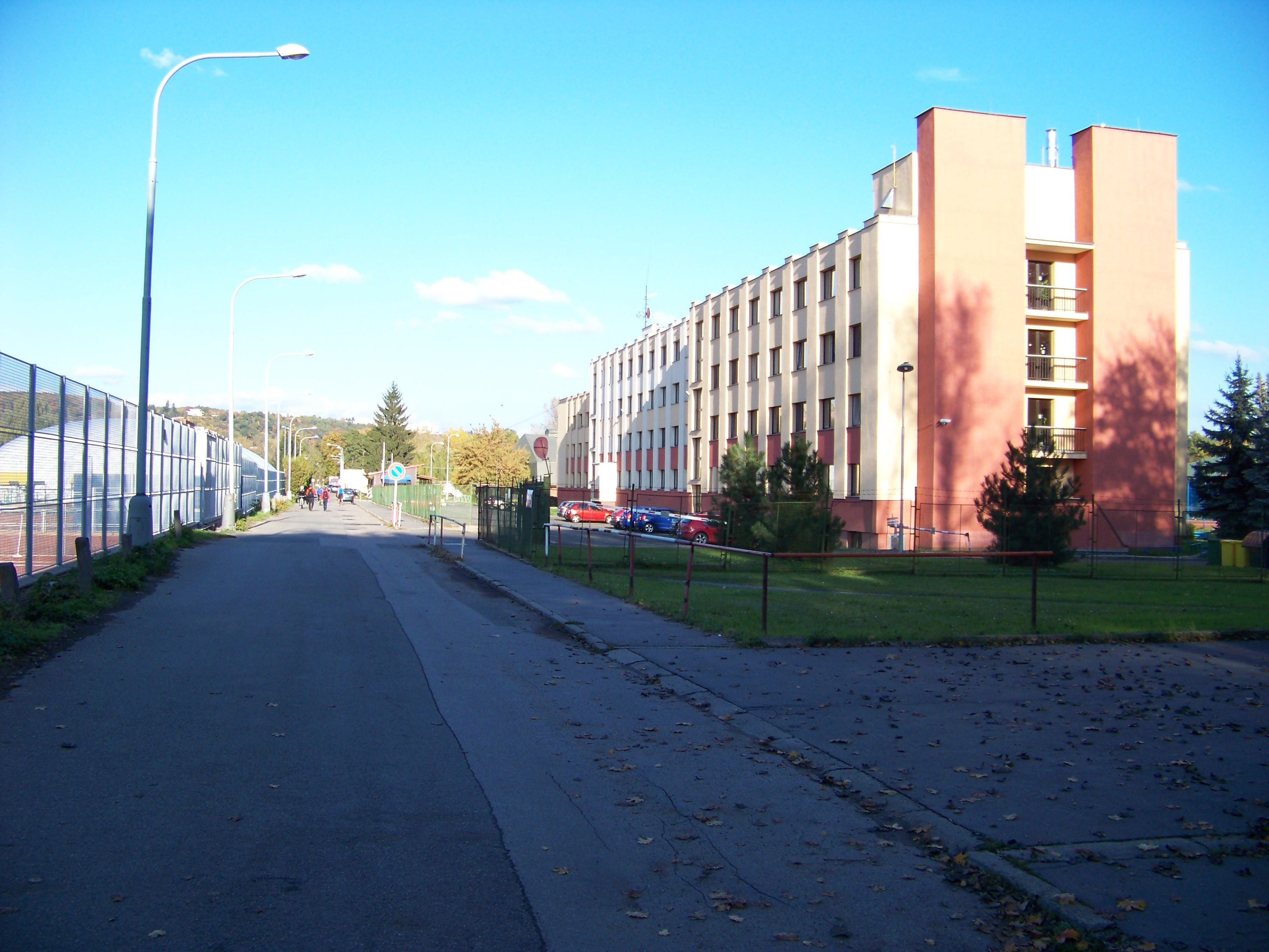 Prague-Bubeneč. Za Císařským mlýnem 1063/5. - OpenStreetMap (Info)